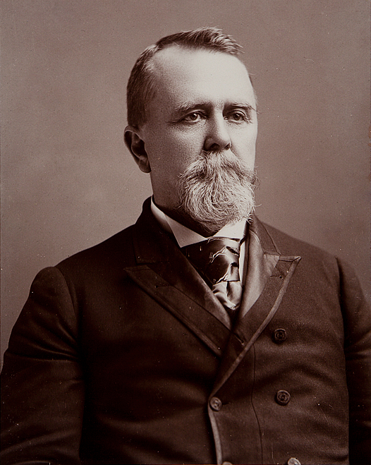 Hilary A. Herbert (1834–1919), U.S. Secretary of the Navy under President Grover Cleveland.